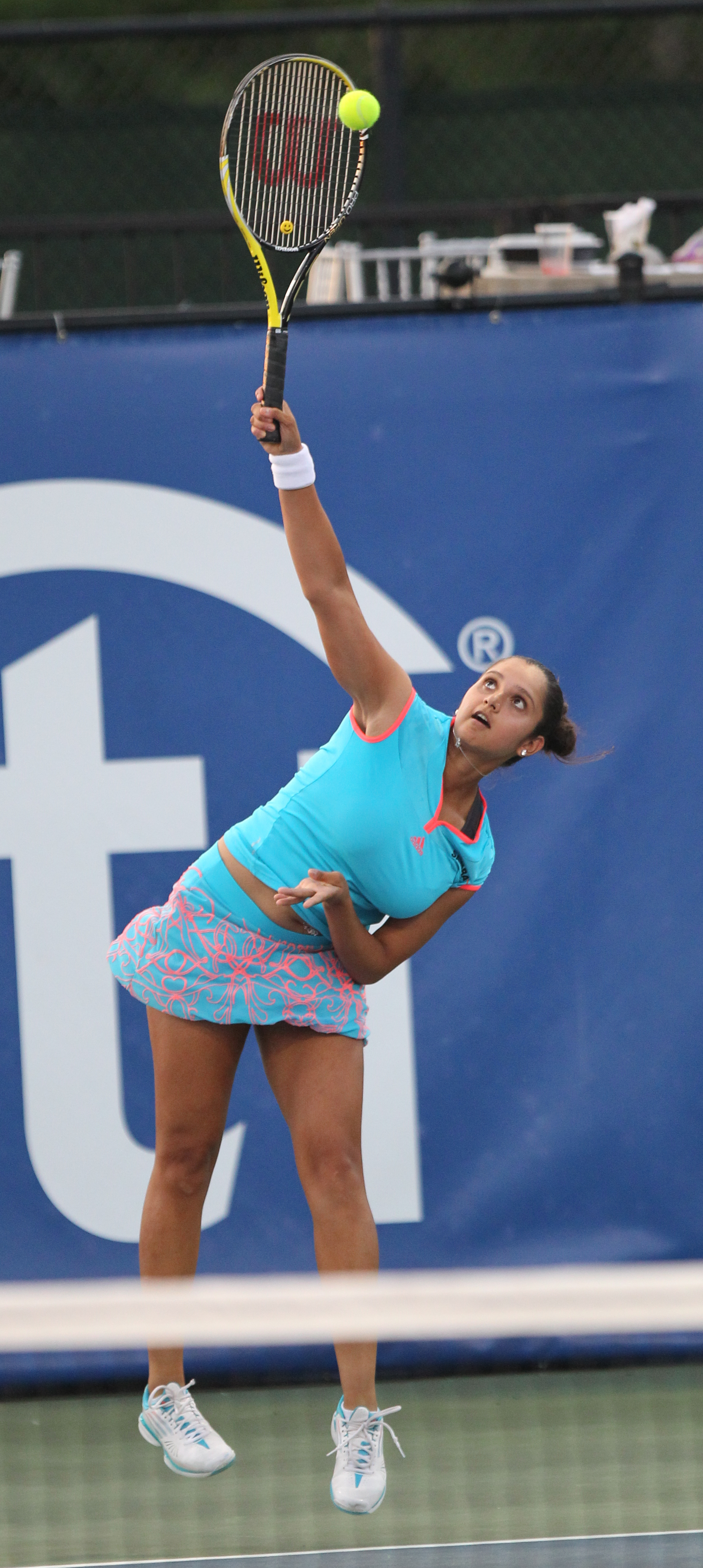 Citi Open Tennis July 30, 2011